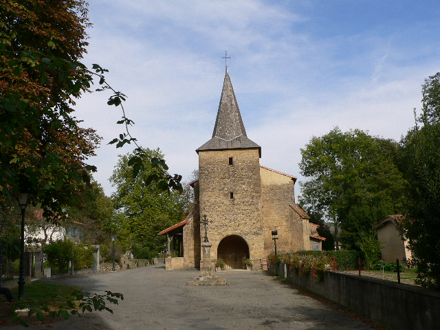 Church of Ornezan